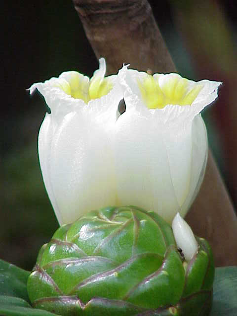 Species: Costus dubius Family: ' Image No. 1